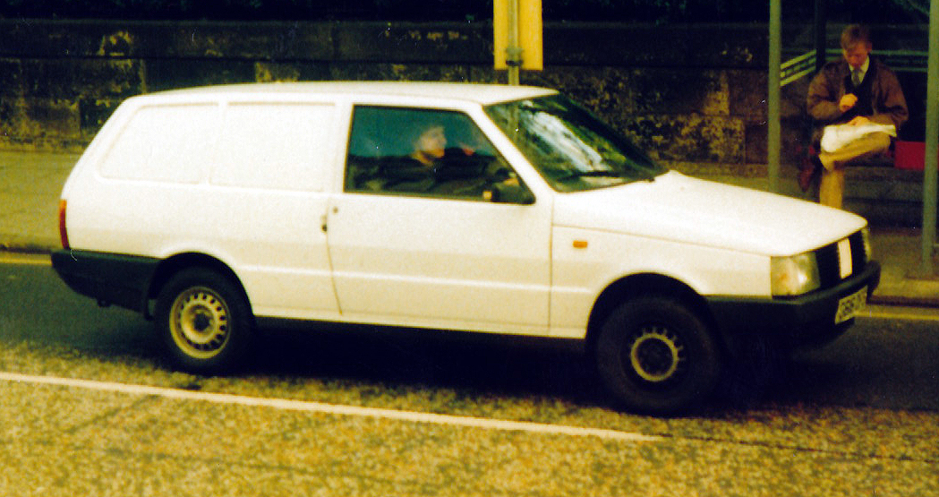 Fiat Citivan somewhere in England. These Brazilian-built little panel vans were sold as the "Fiat Penny" in most markets, but in the UK and New Zealand it was called the Citivan. Very very rare, Google search gives me exactly one picture of a Citivan...